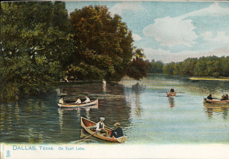 Exall Lake, canoes, Dallas, Texas